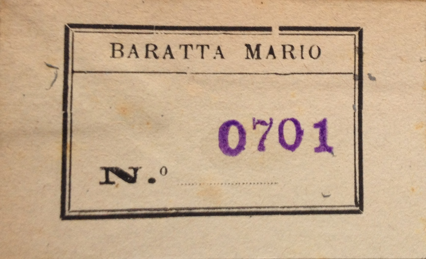 Baratta Mario label